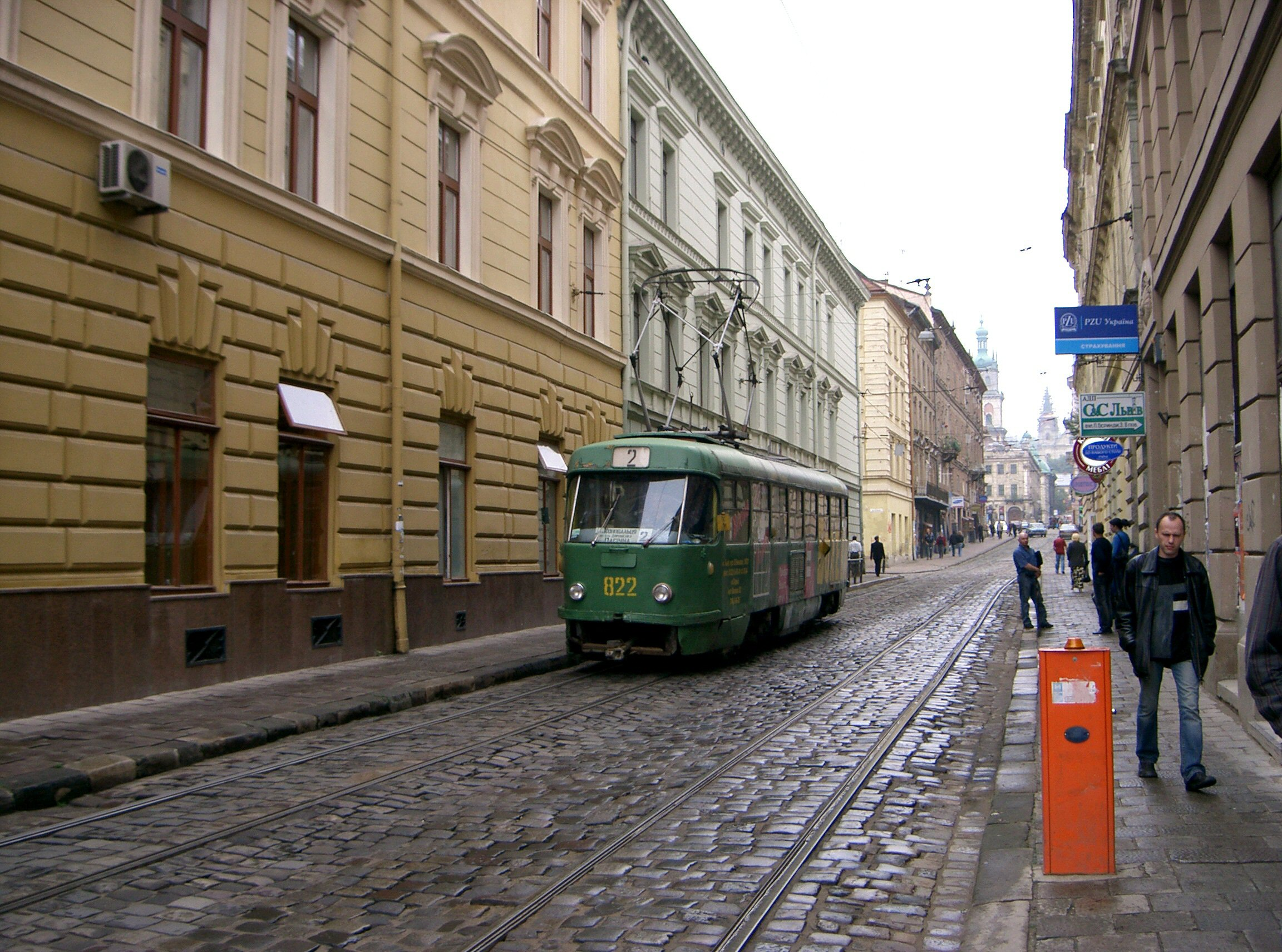 Tatra tram in, Lviv Ukraine. Car no 822, route 2 (Pavlo Berynda street)